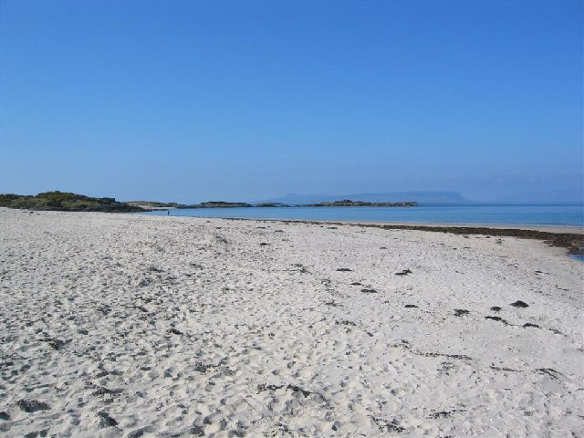 Camusdarach Beach. This was taken at the north end of Camusdarach at 11:53 on 6th April, 2003, looking south with the island of Eigg on the horizon. Well-known as the beach in Local Hero.